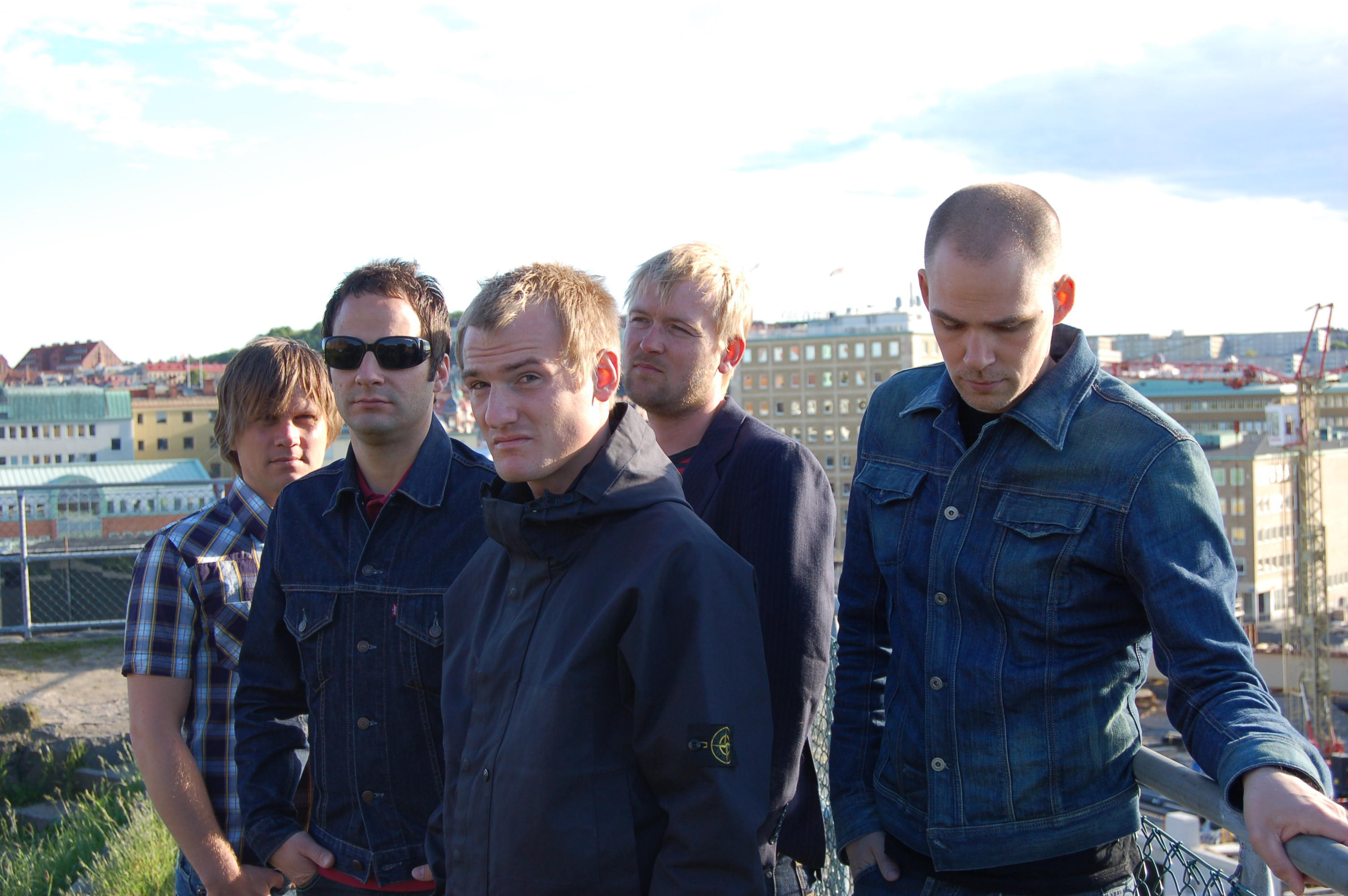 The Carnation 2006, photo by Pär Lydmark